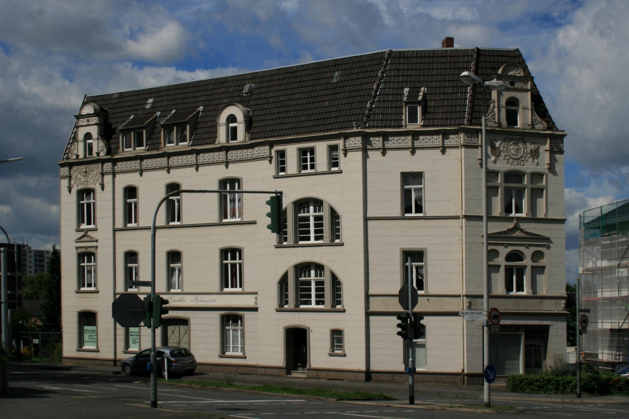 Cultural heritage monument No. V 029 in Mönchengladbach